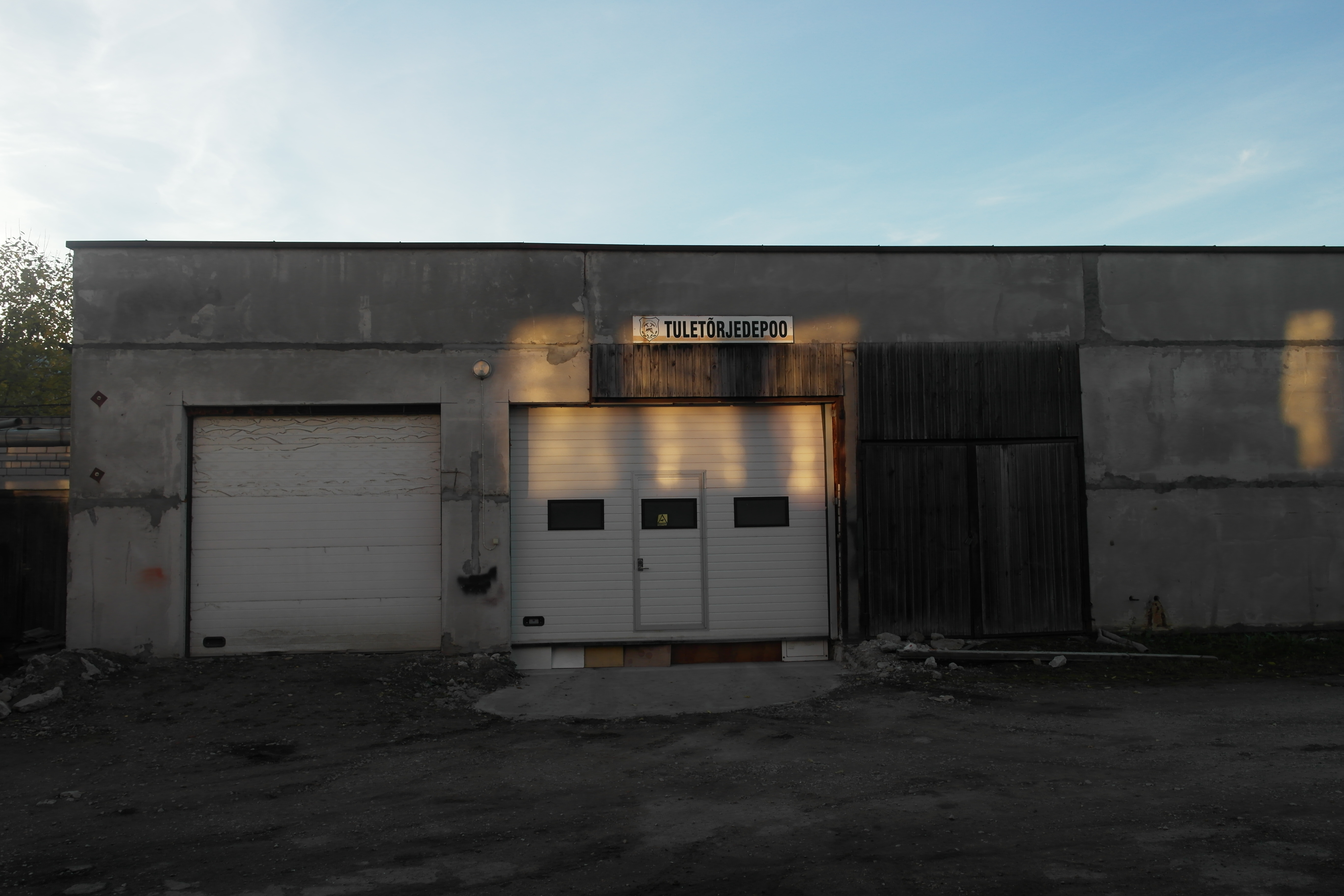 Aruküla Fire Station